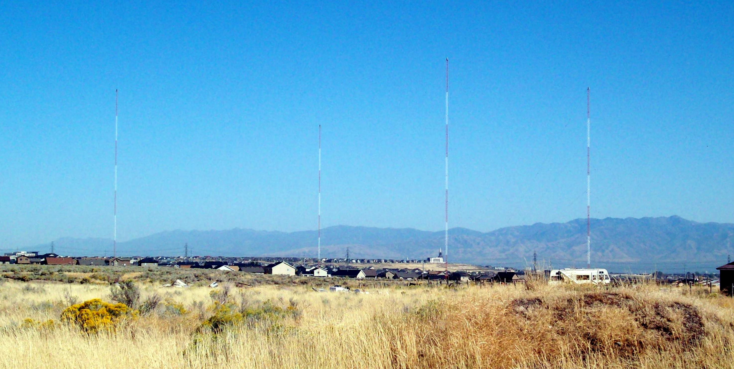 The radio towers for KWDZ 910 AM South Salt Lake City.